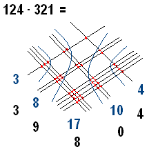 multiplication (graphical)